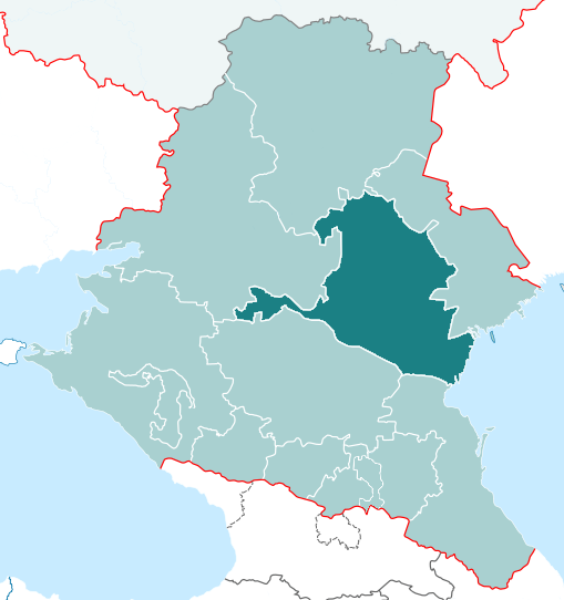 Locator map of Republic of Kalmykia as part of former Southern Federal District before North Caucasian Federal District was split from it in 2010